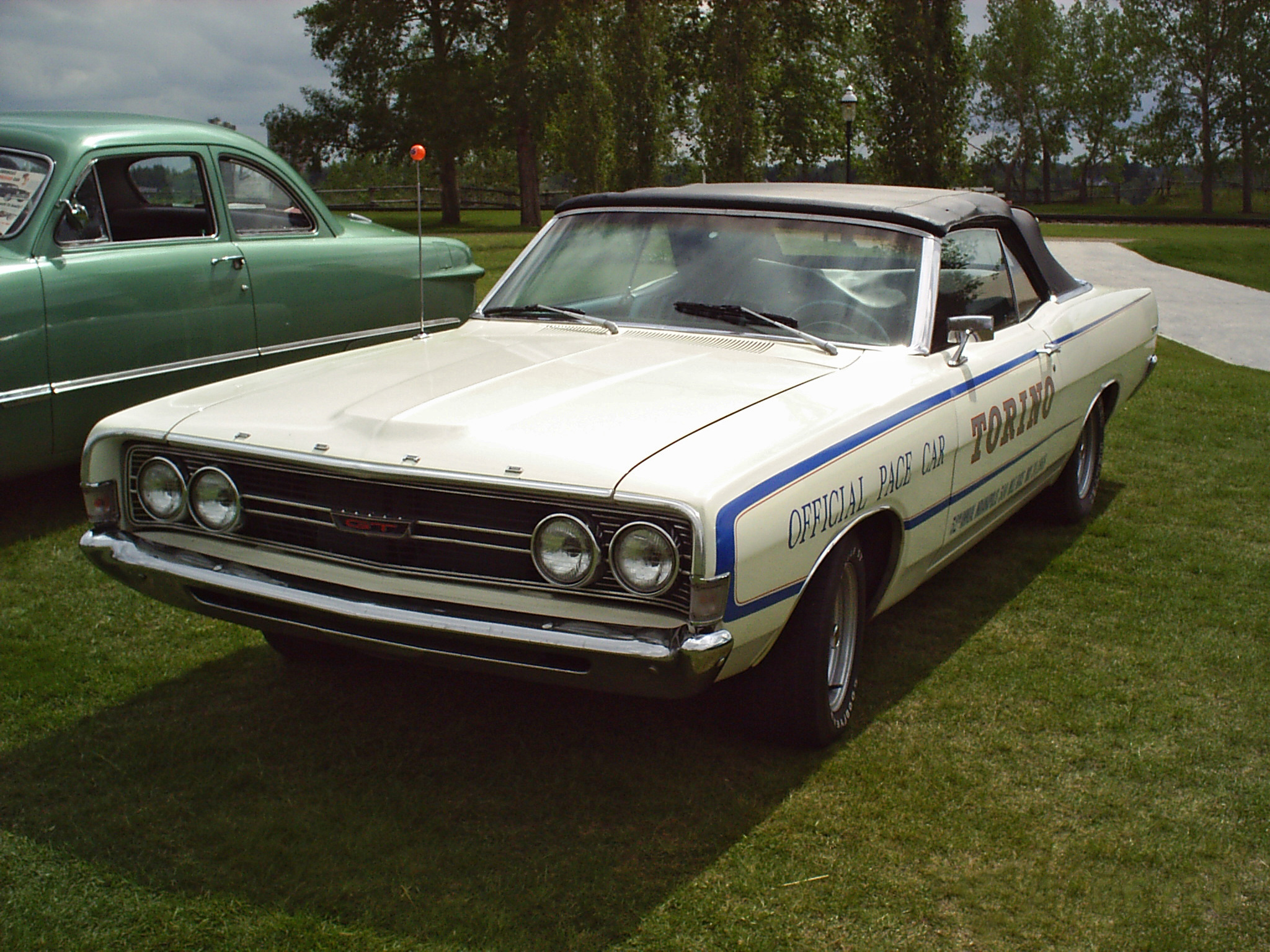 1968 Ford Torino/Fairlane with a 390hp 427c.i. V-8 - pace car convertible.